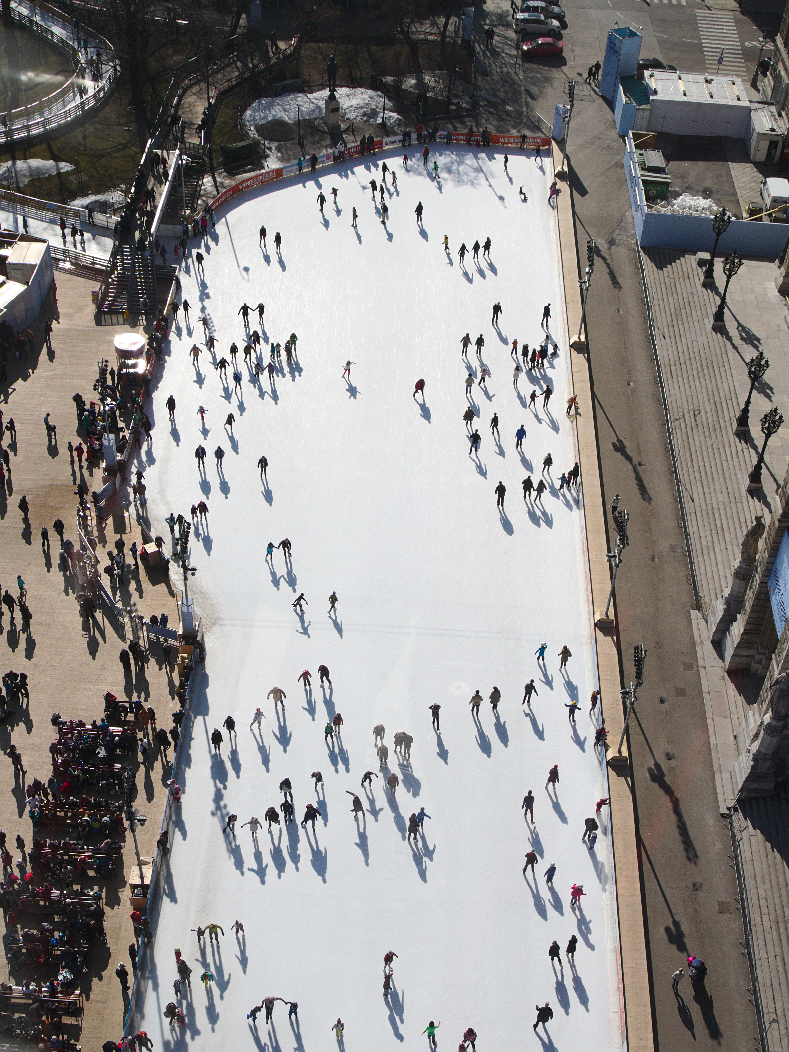 Eistraum Vienna, seen from a panorama lift that was erected there during the 2015 saison.